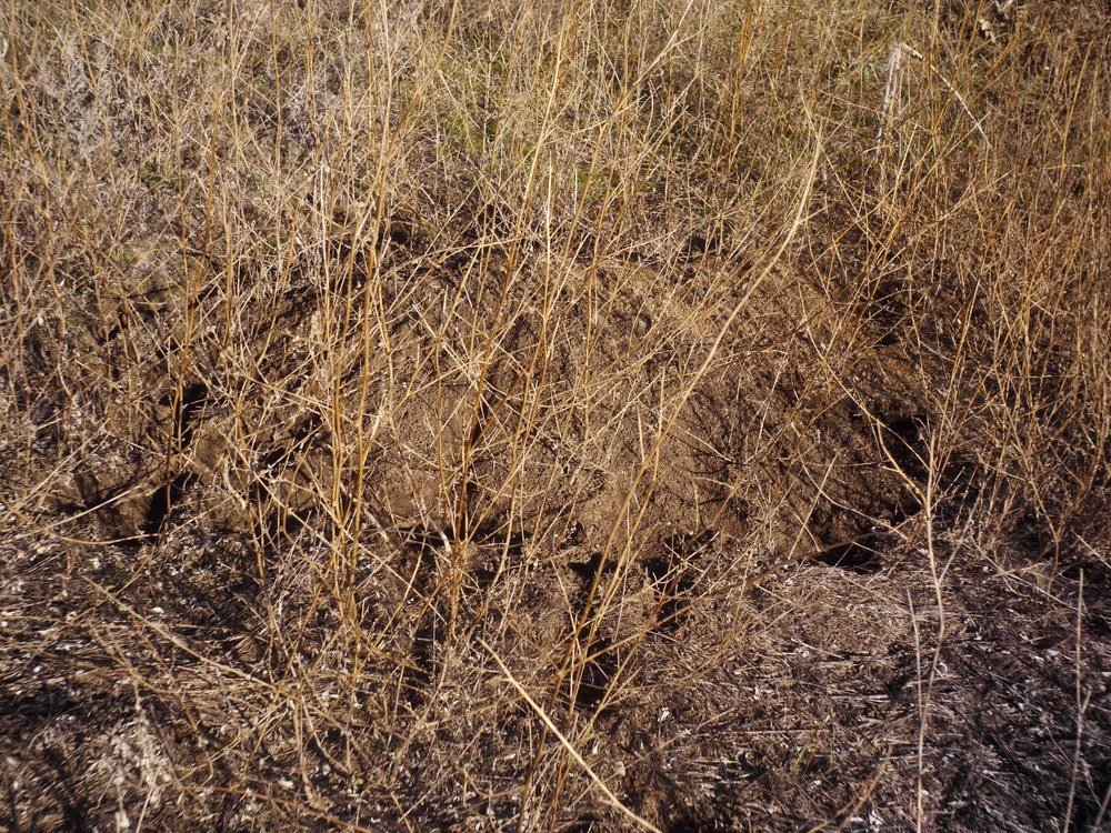 Mound-building Mouse (Mus spicilegus)